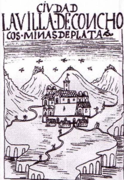 Villa de Conchucos